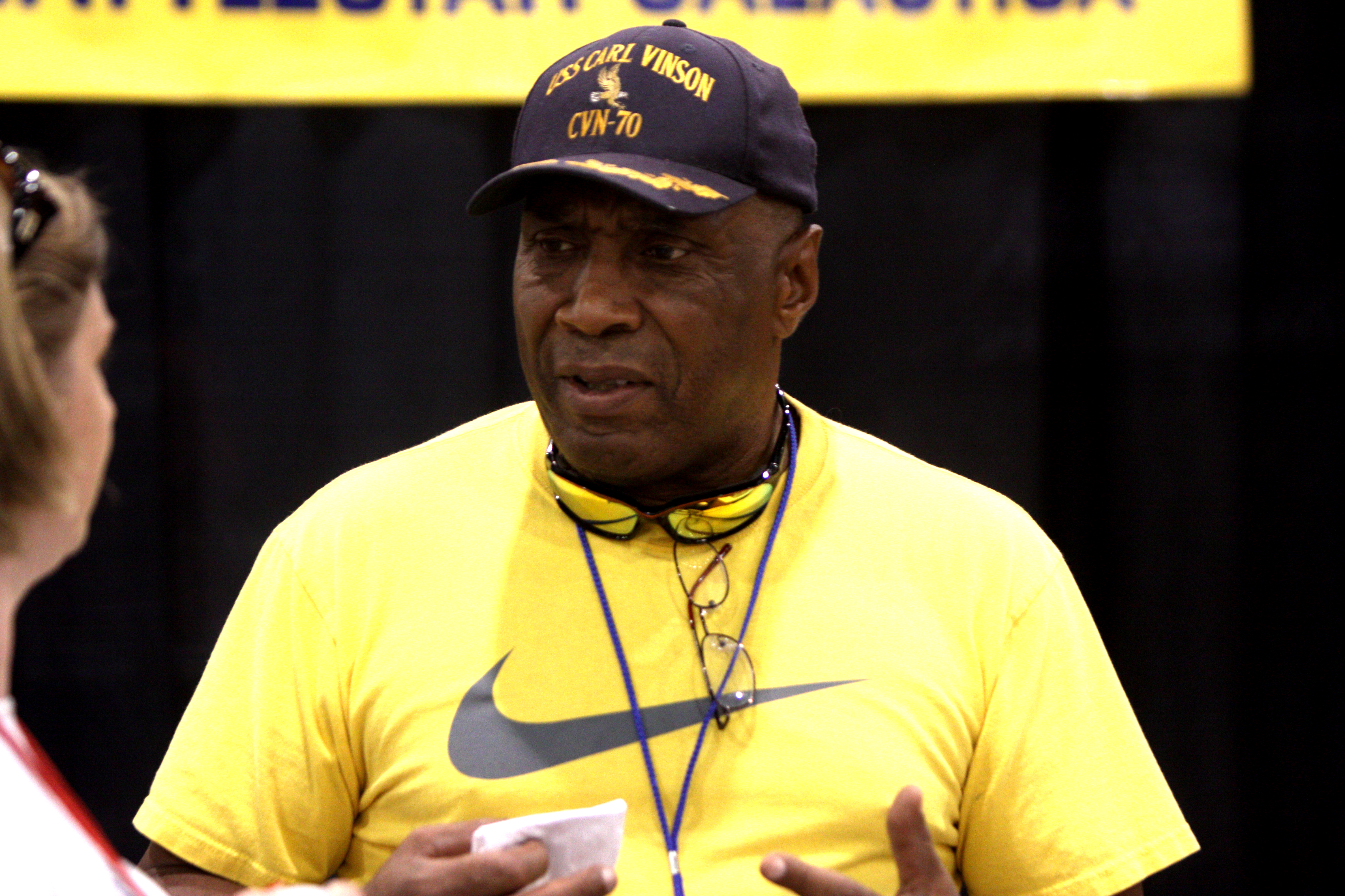 Herbert Jefferson, Jr. at the 2012 Phoenix Comicon in Phoenix, Arizona.